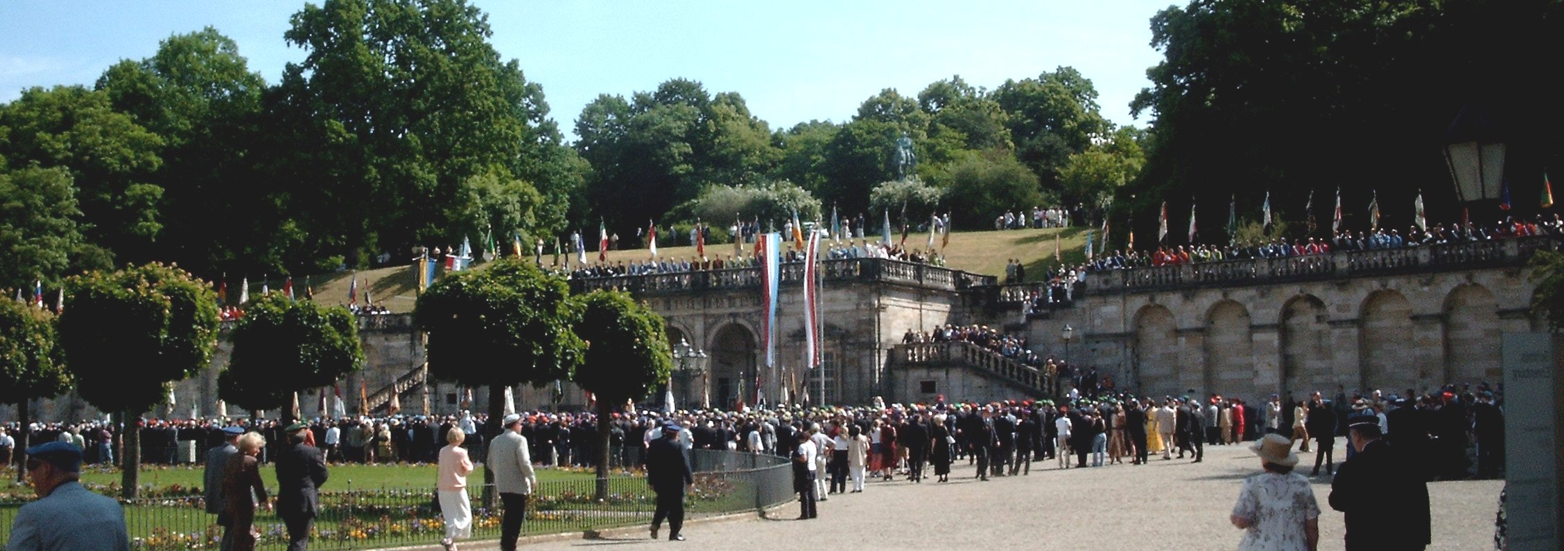 Coburger Pfingstkongress